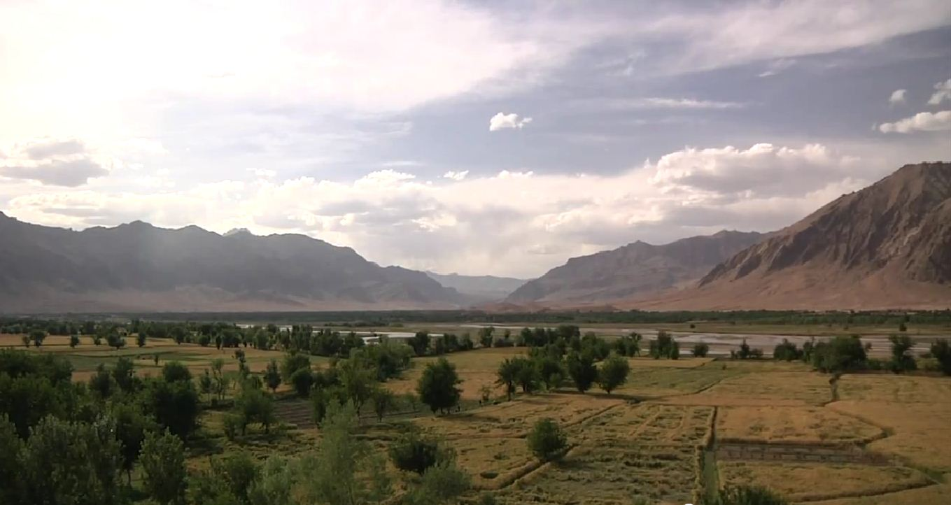 Scenery in the Gizab district of Urozgan Province in Afghanistan